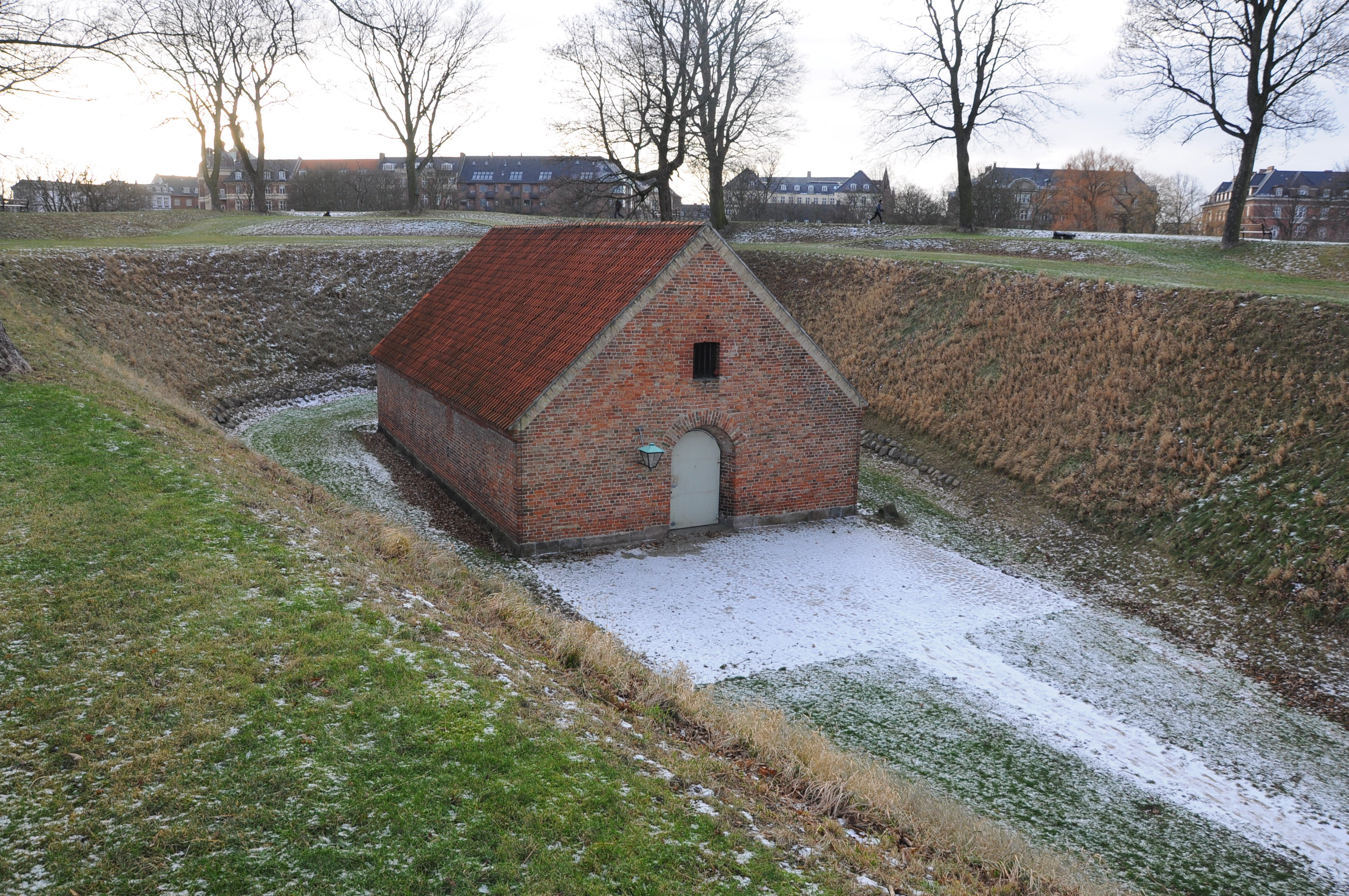 The gun powder house at Kastellet's Dronningens Bastion in Copenhagen, enmark. It was built in 1712 by Domenico Pelli.